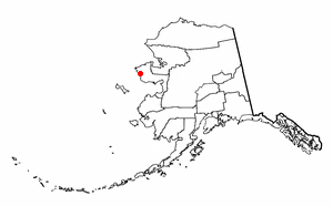 Adapted from Wikipedia's AK borough maps by Seth Ilys.